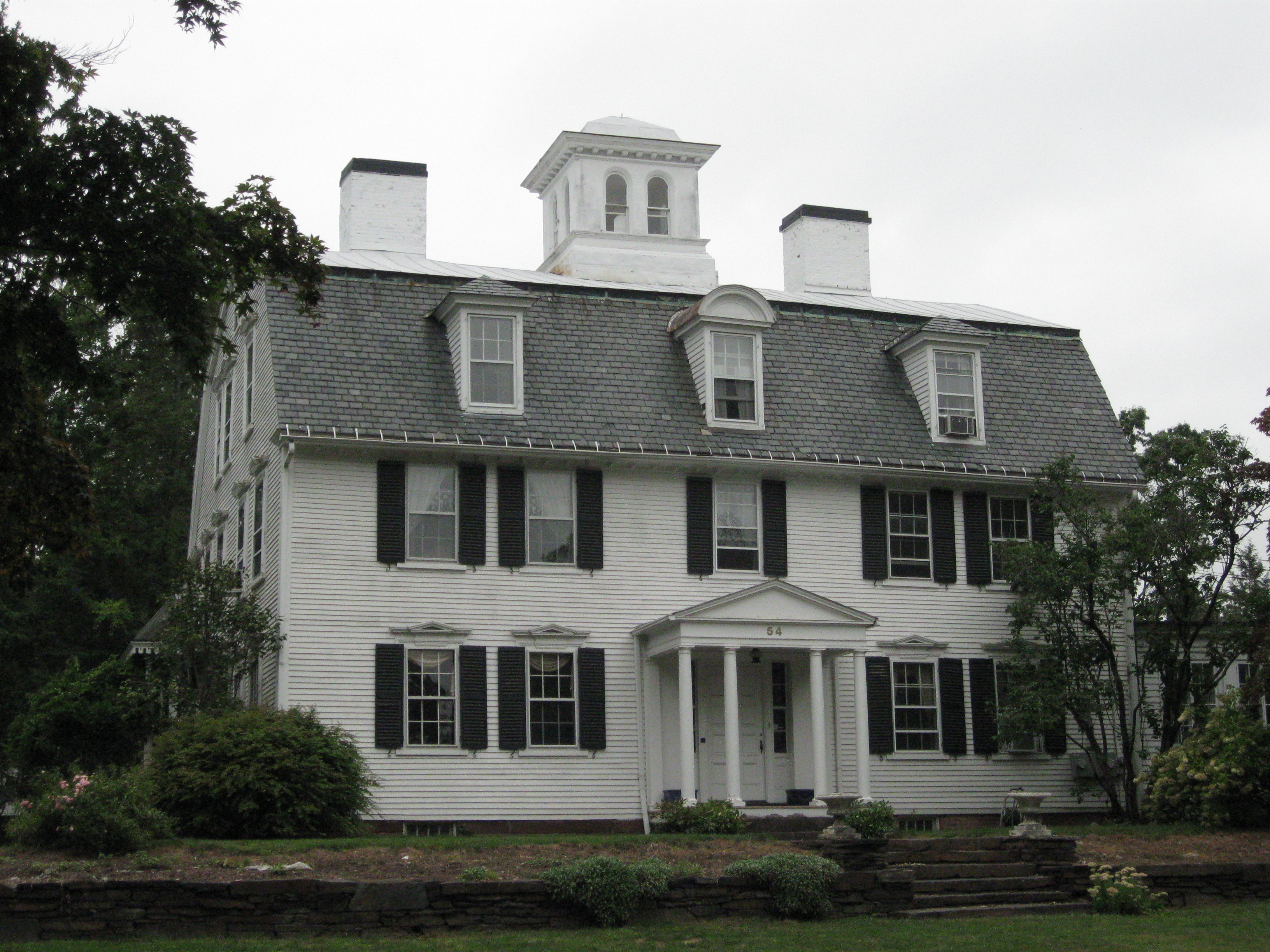 The Manse